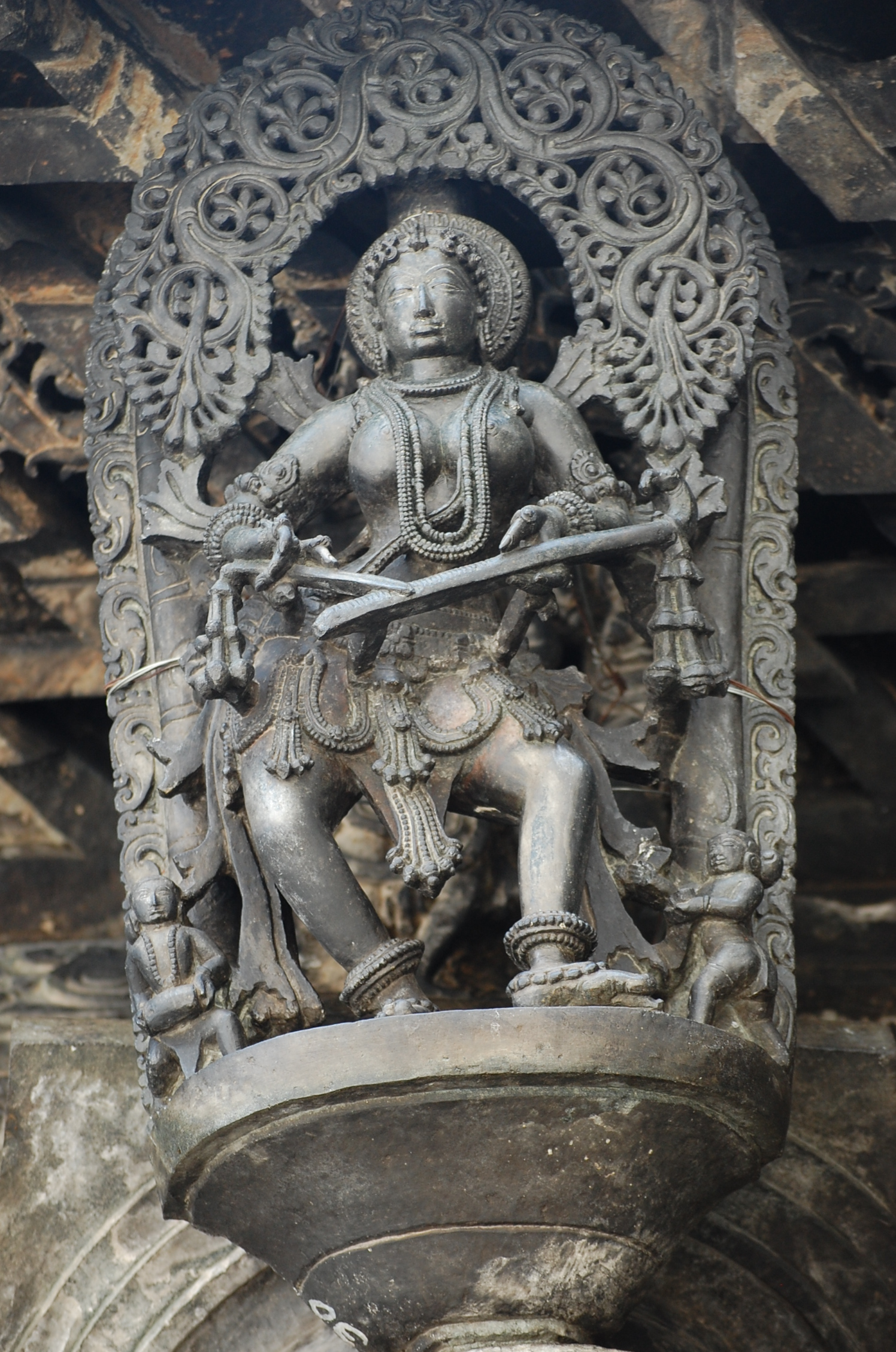 shilabalika 5